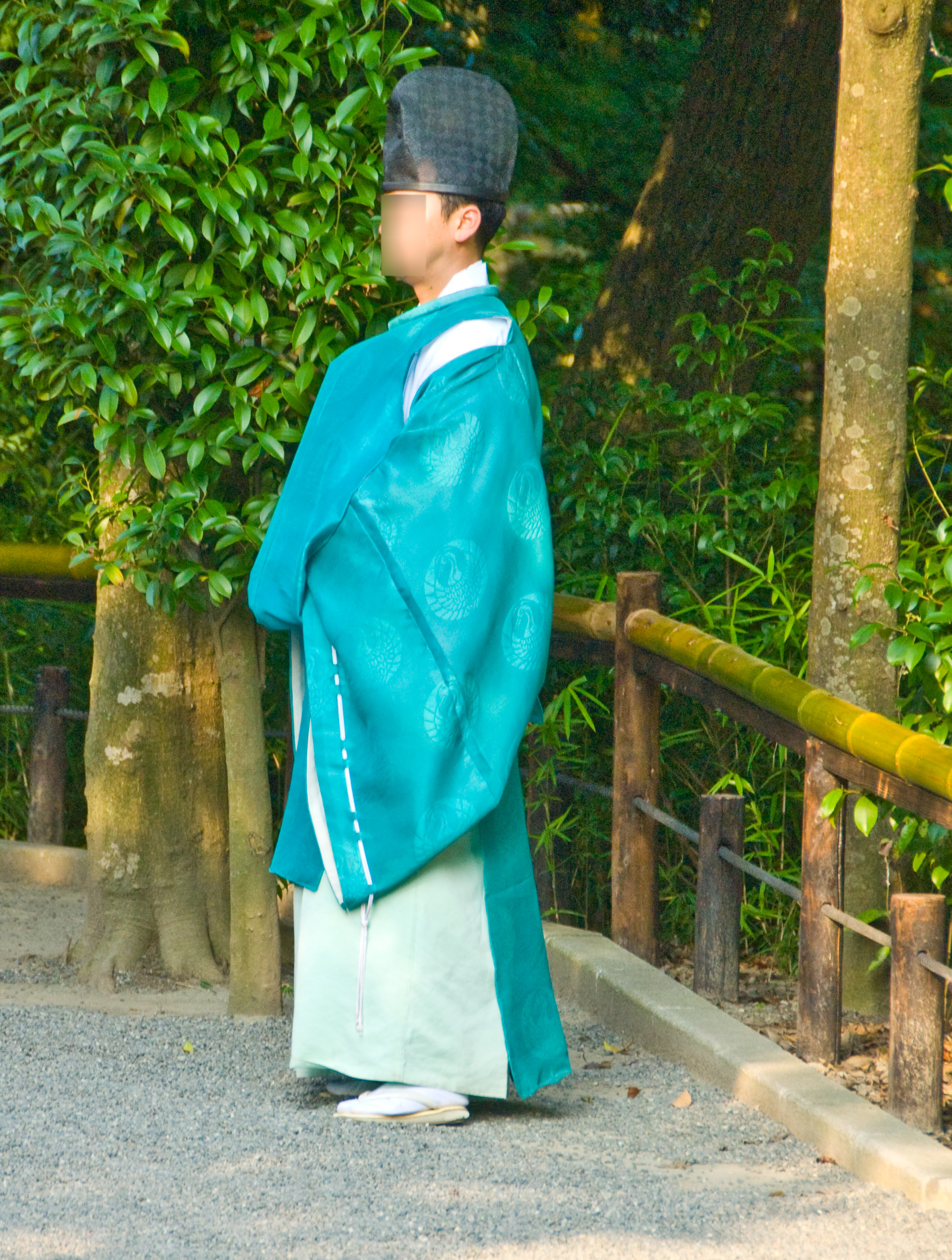 A "kannushi", or Shinto priest, at Tsurugaoka Hachiman-gū in Kamakura during a wedding (face has been blurred out)